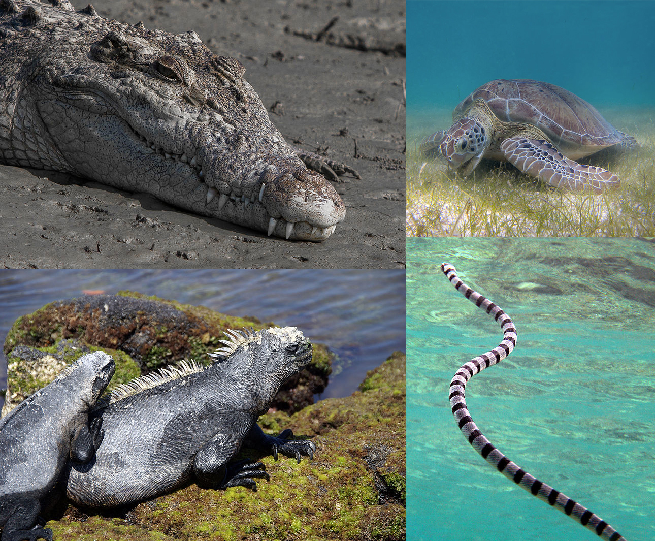 Modern Marine reptiles: Saltwater crocodile, sea turtle, marine iguana, sea serpent